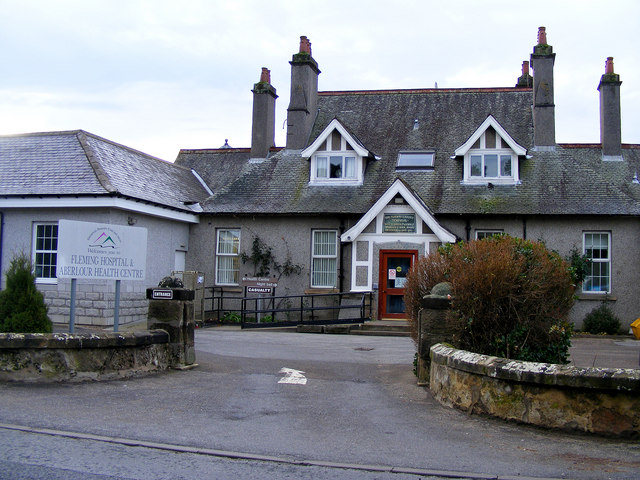 The Fleming Hospital at Aberlour The Fleming hospital was opened in 1900, a recent addition is the Aberlour Health Centre.